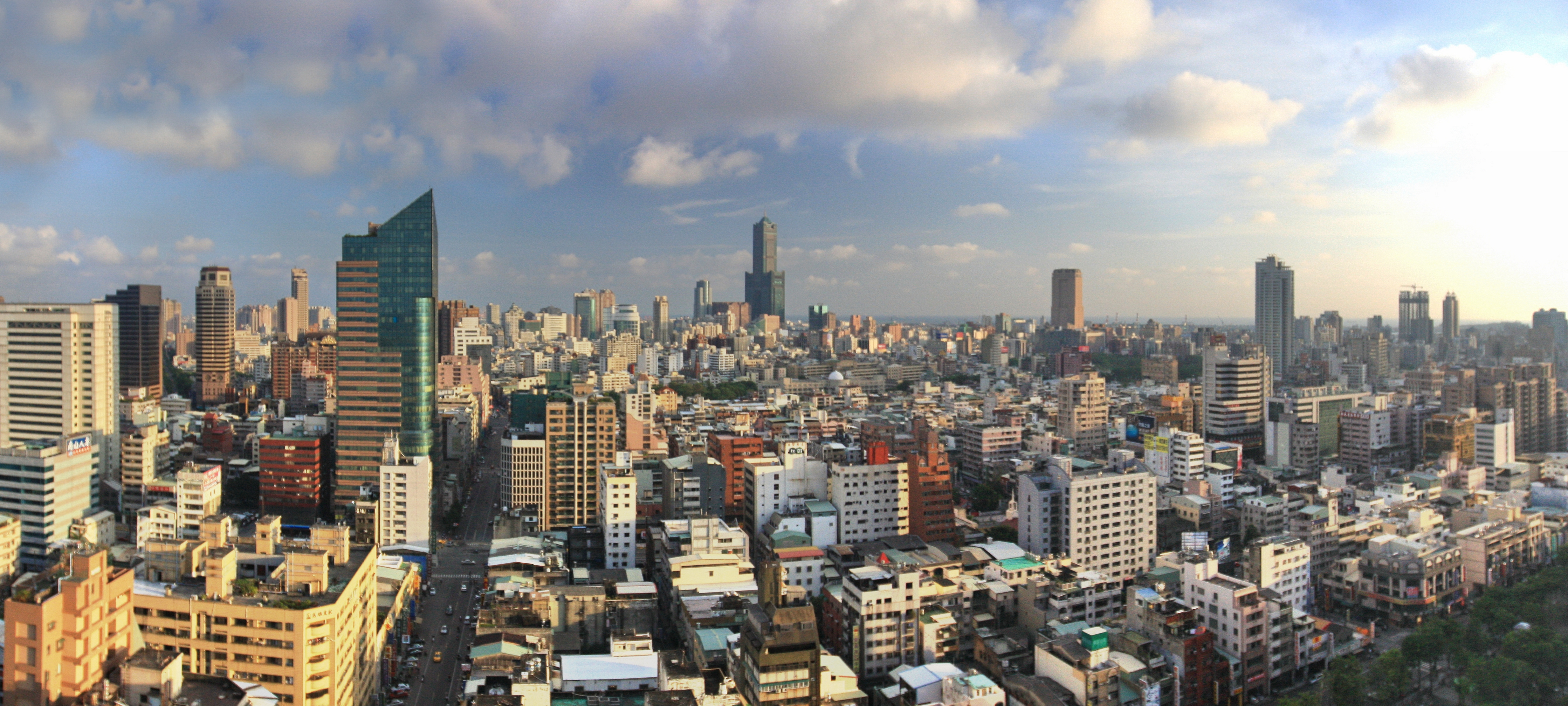 Kaohsiung, Taiwan